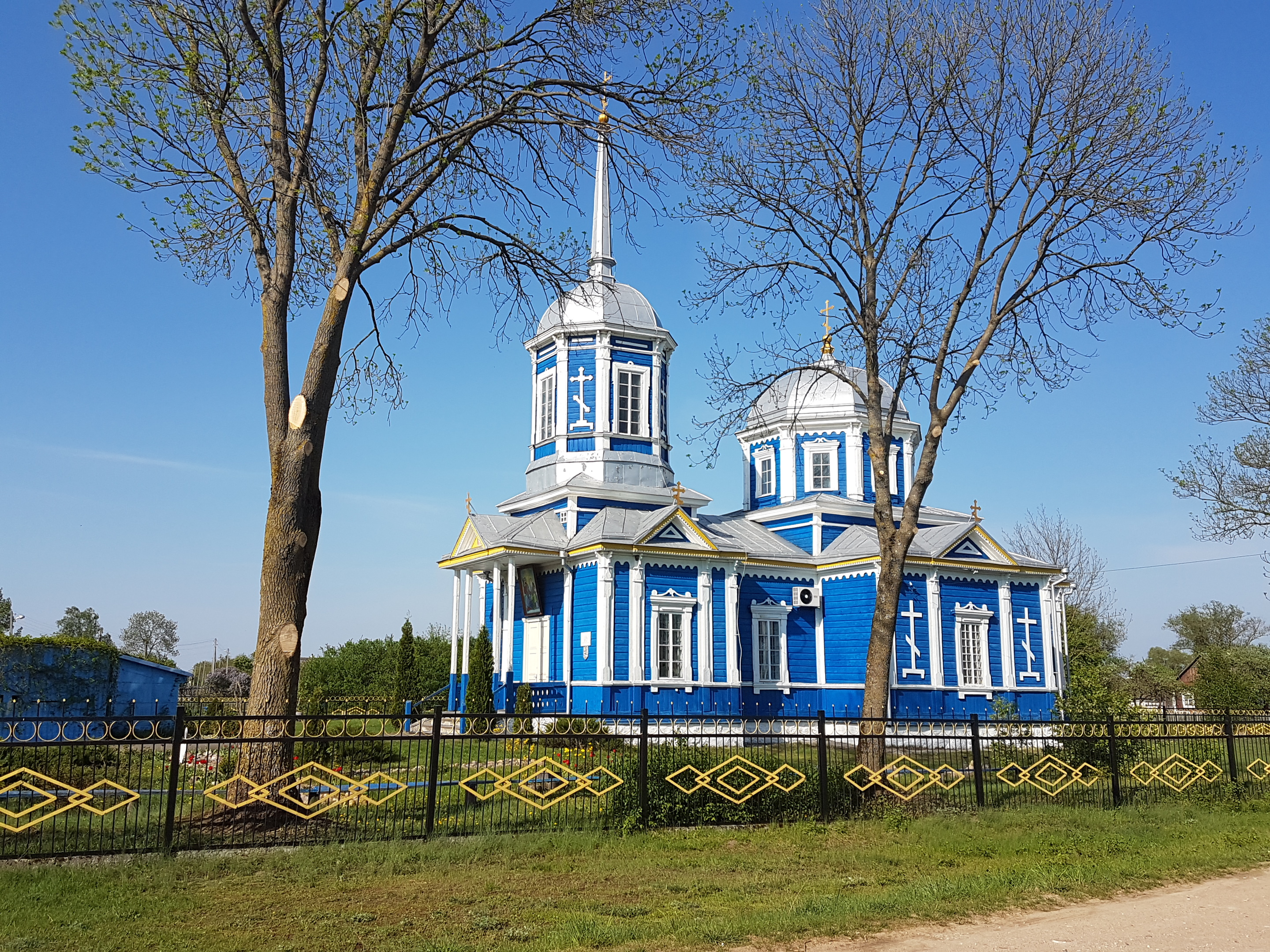 Church of the Holy Trinity in Miestkavičy, Pinsk District, Belarus